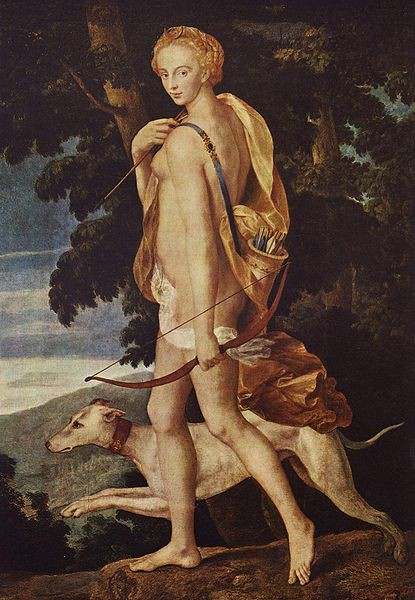 Depicted person: Probably Diane de Poitiers without frame